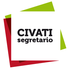 Civati Segretario logo.